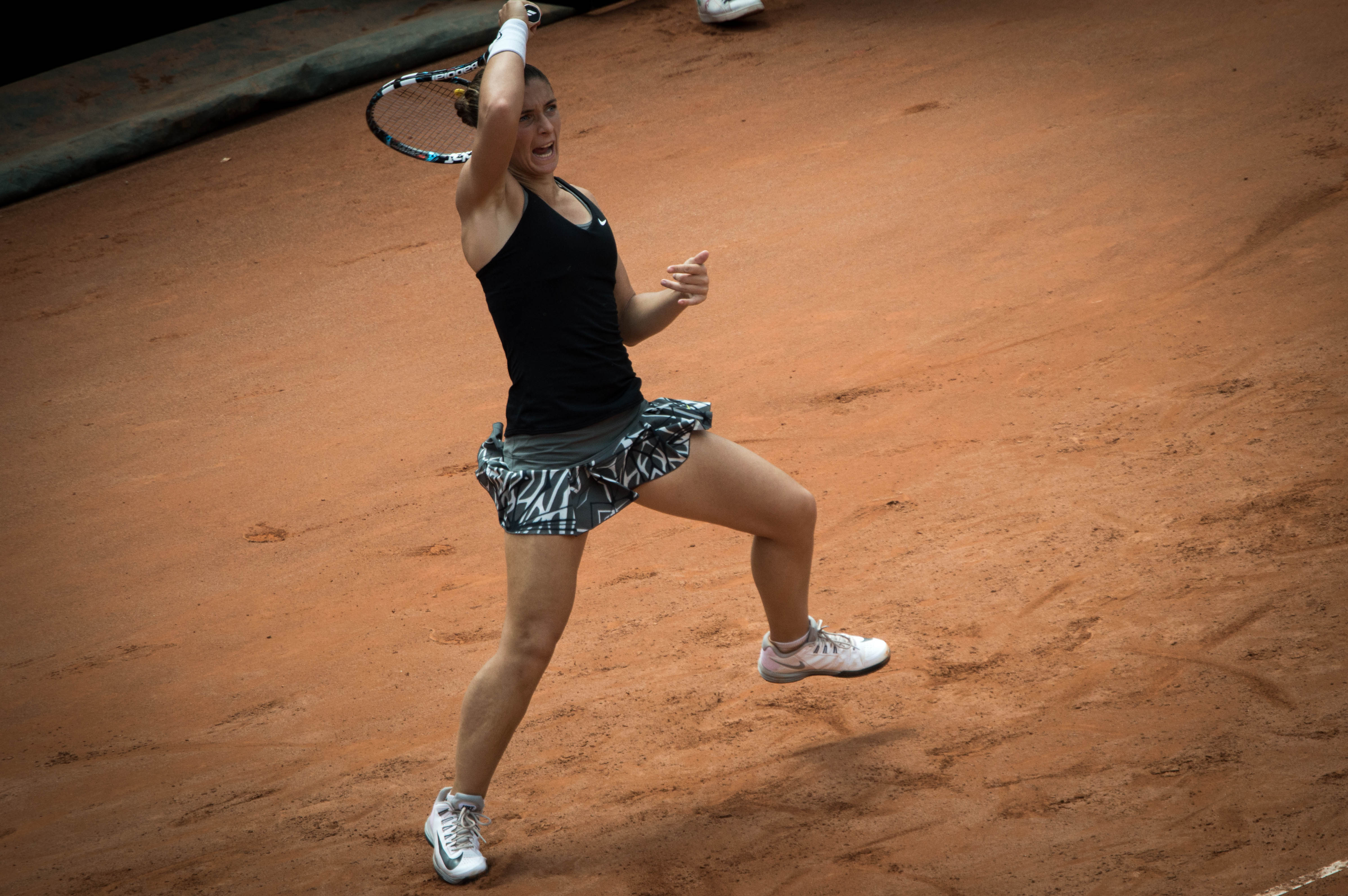 Sara Errani in action at the 2014 Italian Open